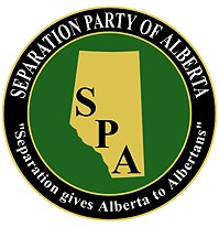 This is the logo used by the Freedom Conservative party from 2004 to 2013 when they were called the Separation Party of Alberta